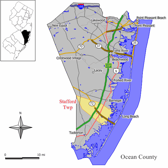 Source: Jim Irwin Original work by Jim Irwin, December 2005.